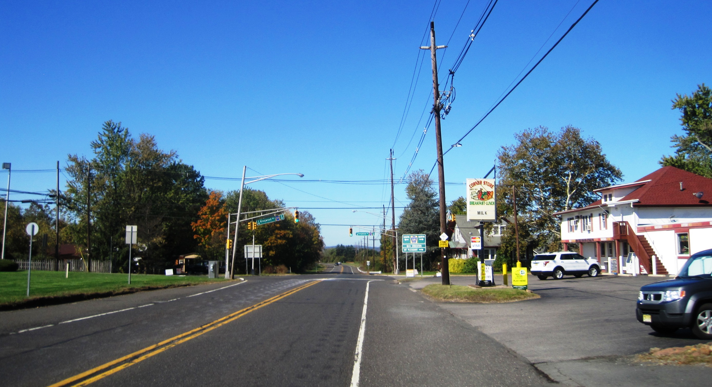 Photo of Baptistown, New Jersey, an unincorporated community within Kingwood Township. Photo taken along westbound New Jersey Route 12 at County Route 519.